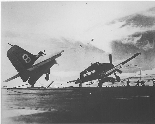 F6F-5P of VF-23 crashed on landing on the flight deck of USS Princeton (CVL-23), breaking into two pieces.